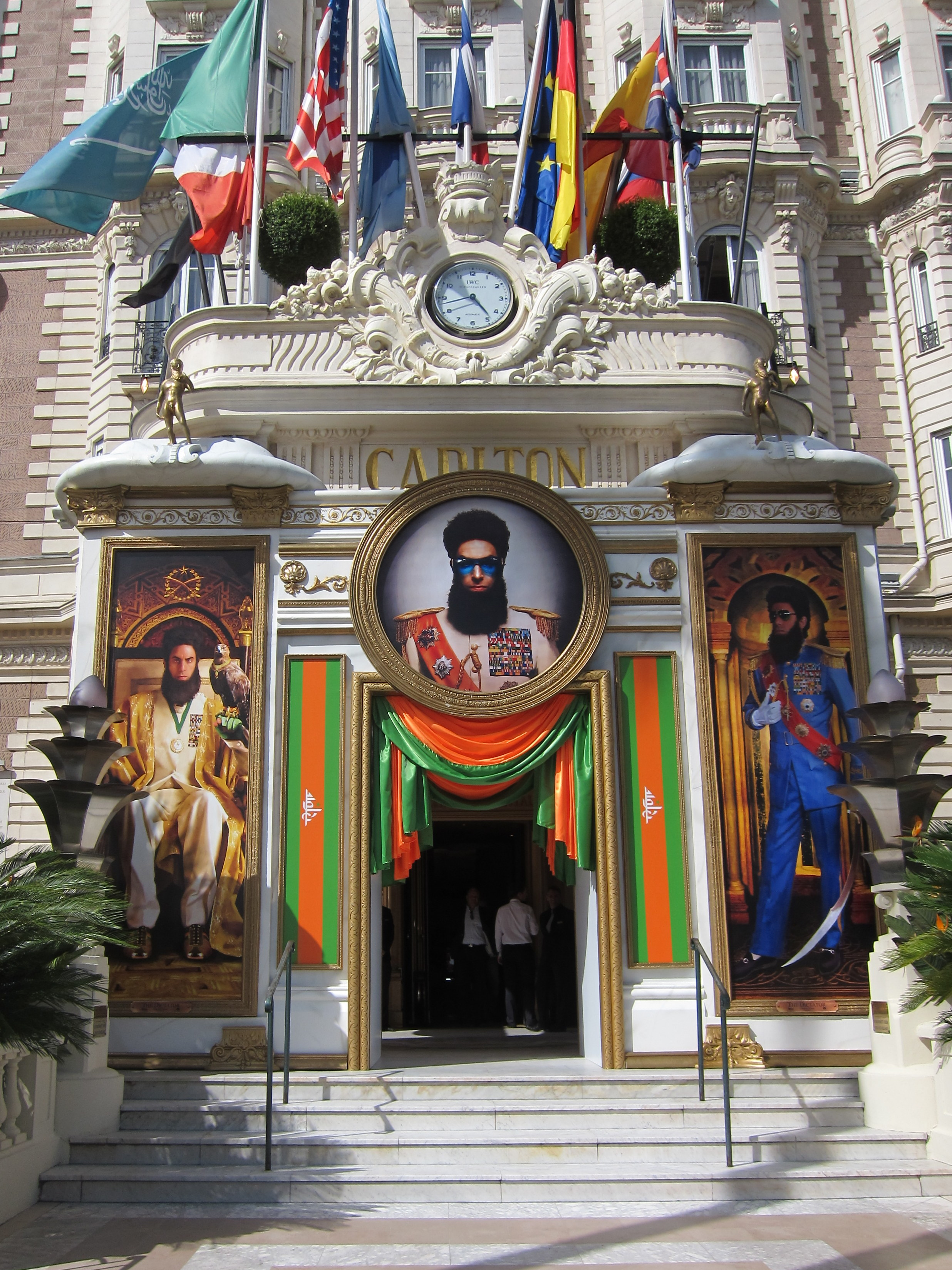 This photo was taken on May 17, 2012 using a Canon PowerShot S95.